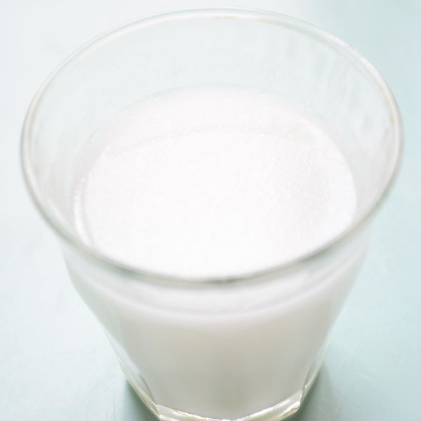 I made this photo for a recipe blog post on how to make a tofu dessert: If you use it, please link to the original blog post.